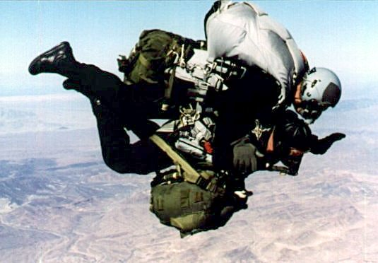 Army MSG "Congo" Easterling, the Tandem Master, and his passenger Army SGT "Packman" Eatmon, while assigned to the Military Free Fall committee. Both parachuters were wearing oxygen systems, ruck sacks and rifles. Taken over Yuma Proving Ground, AZ at about 15,000 feet over Phillips DZ.